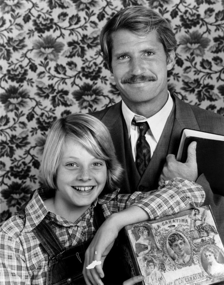 Publicity photo of American actors Jodie Foster and Christopher Connelly promoting their roles on the 1974 television series Paper Moon.